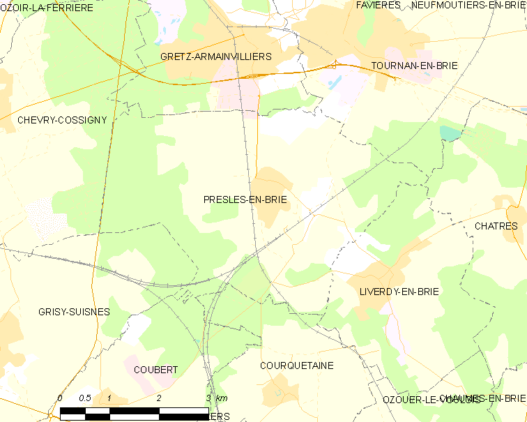 Map of French municipality Presles-en-Brie